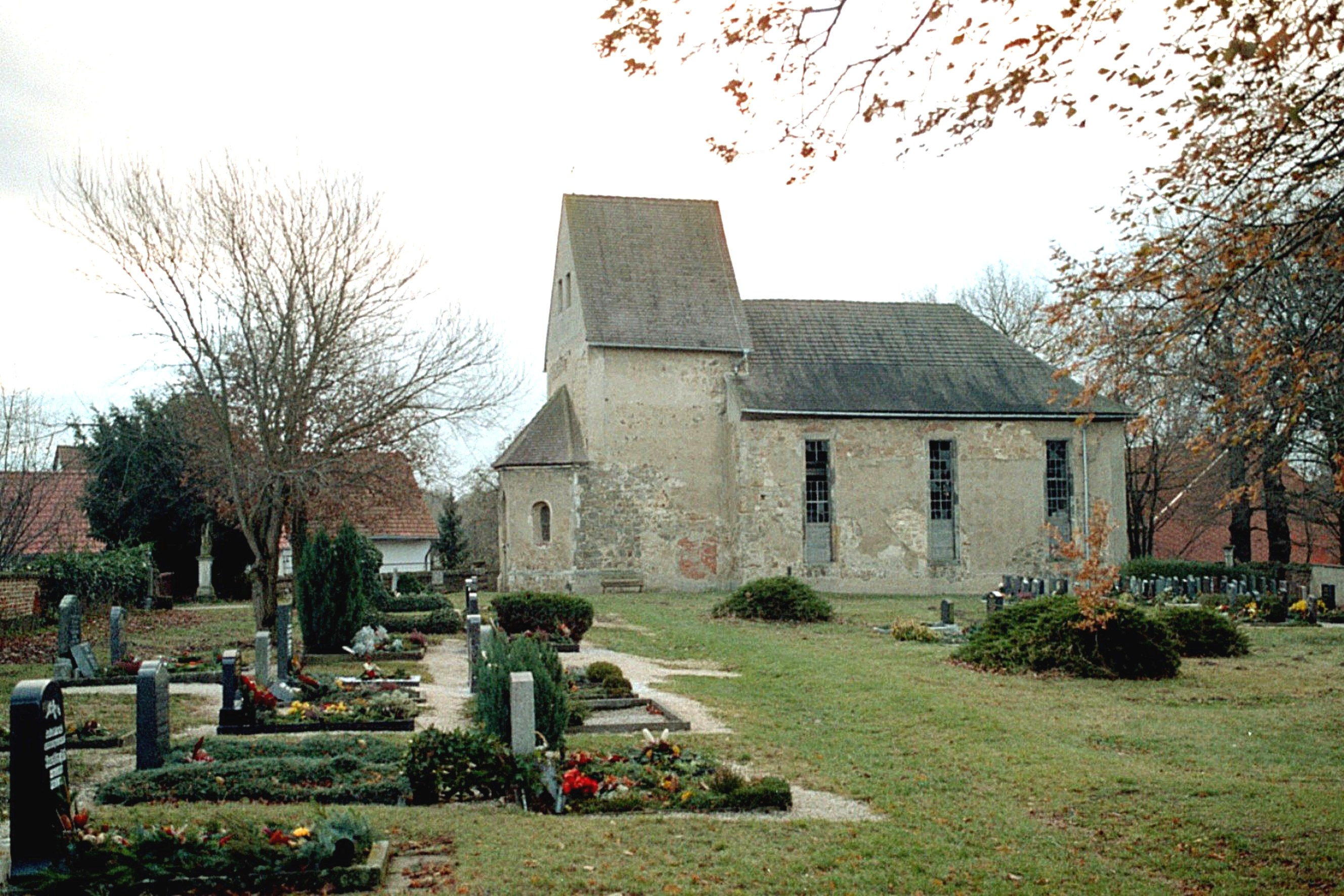 Weickelsdorf (Osterfeld), the village church